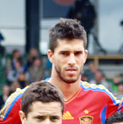 Spain national under-21 football team at 2011 UEFA European Under-21 Football Championship.